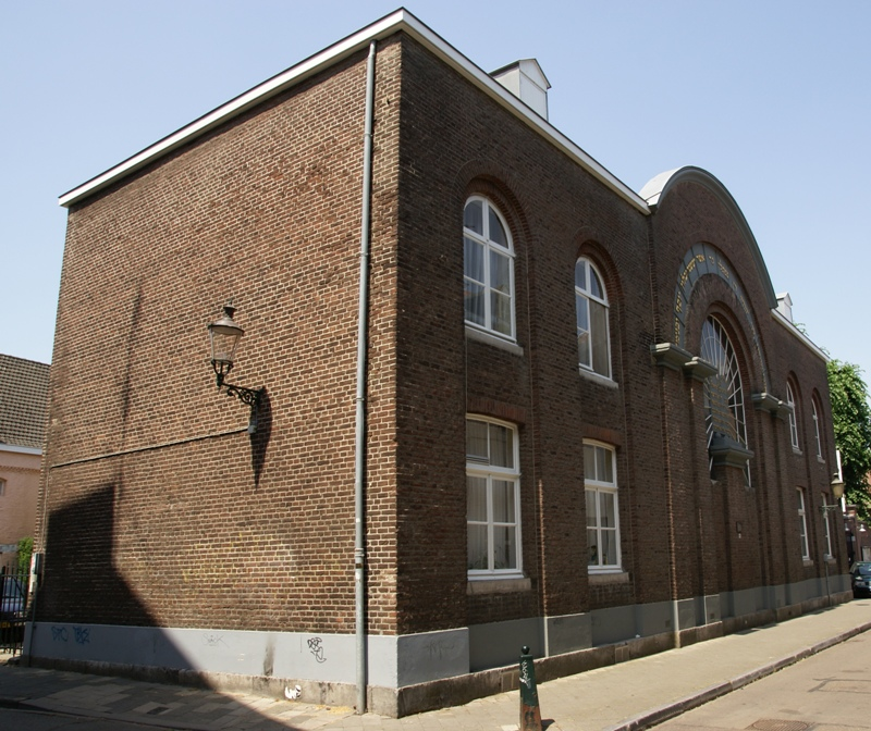 National monument no. 26930 - Capucijnengang 2, Maastricht, The Netherlands